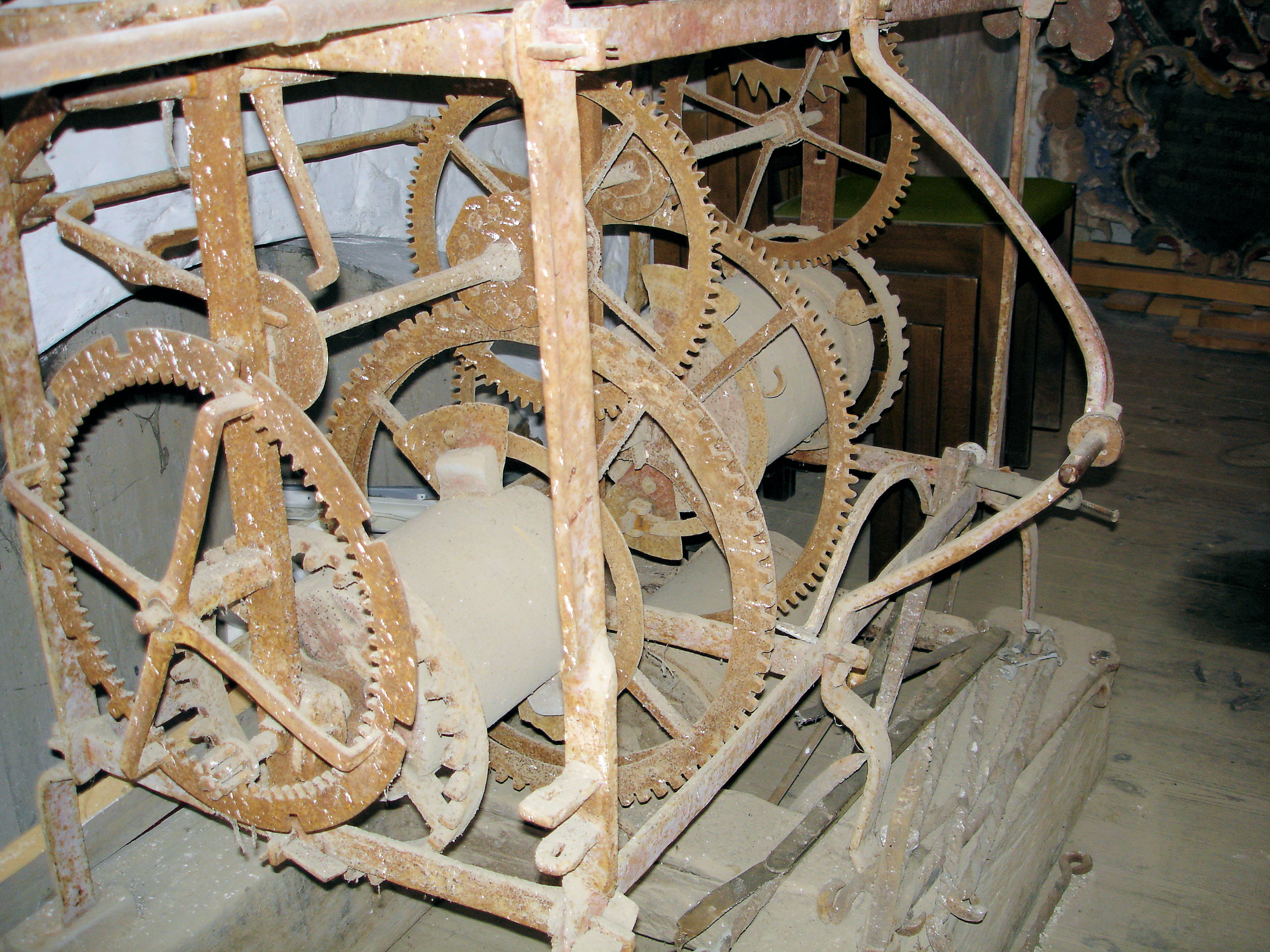 Altes Uhrwerk Kirche Kavelstorf/ Old movement in the church Kavelstorf